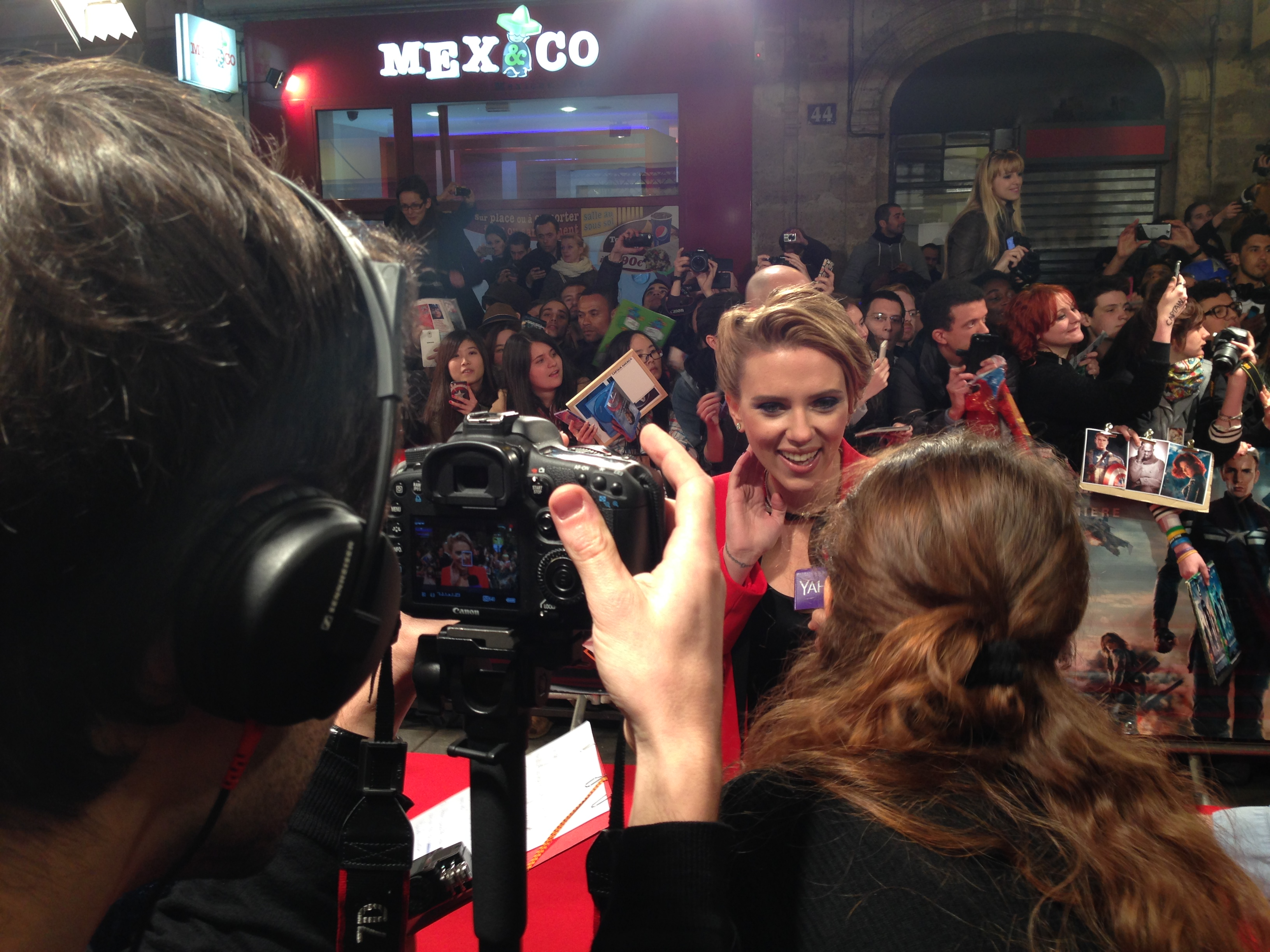 Scarlett Johansson at the Parisian premiere of Captain America: The Winter Soldier